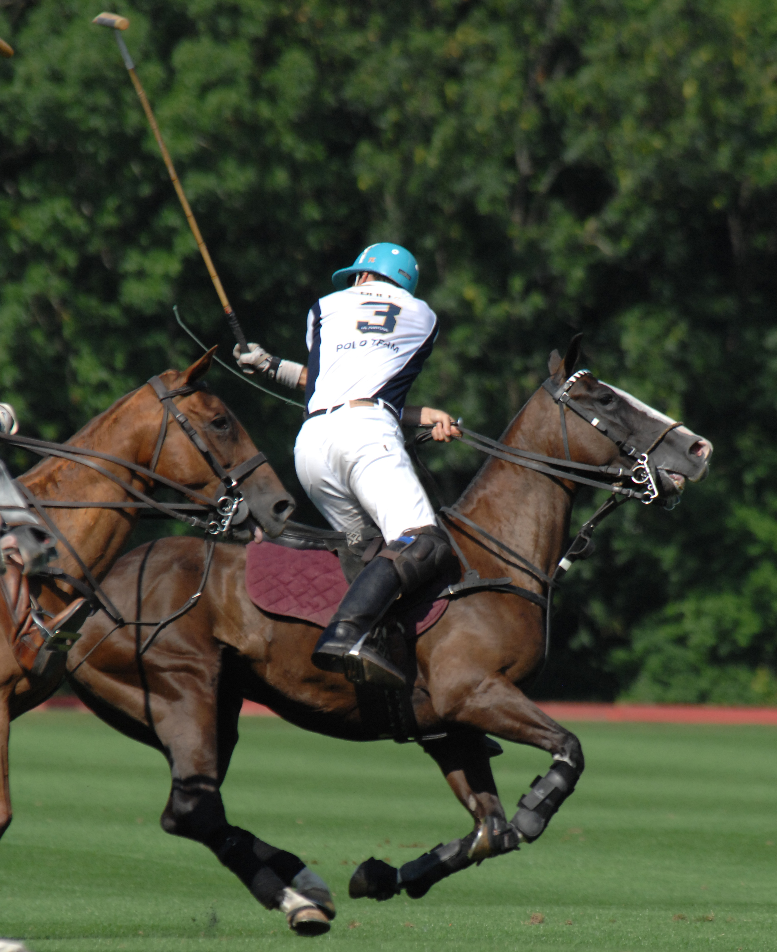 Polo swing nearside backwards